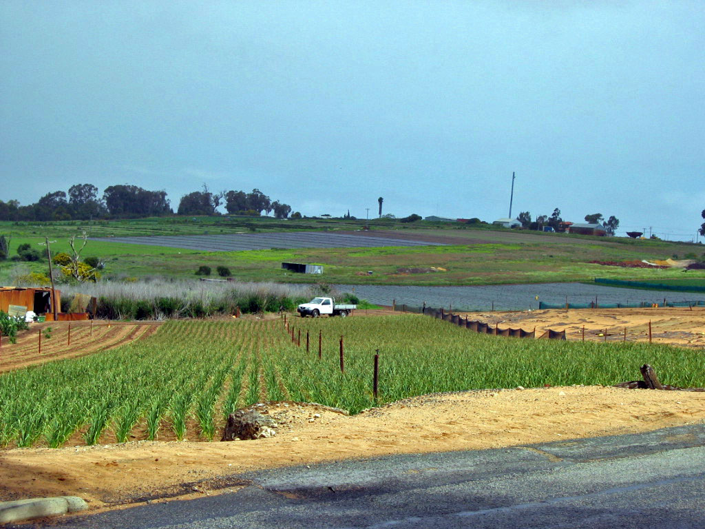 Farms east of Wanneroo Road in Neerabup, in northern Perth, Western Australia.